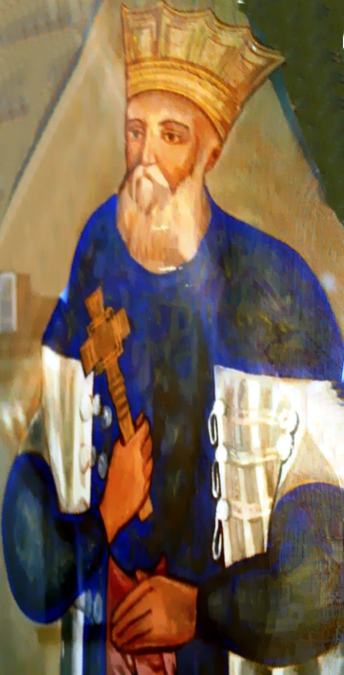 Serban Cantacuzino of Wallachia